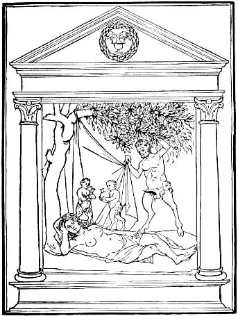 Illustration from Hypnerotomachia Poliphili, by anonymous, AldusManutius Venice 1499